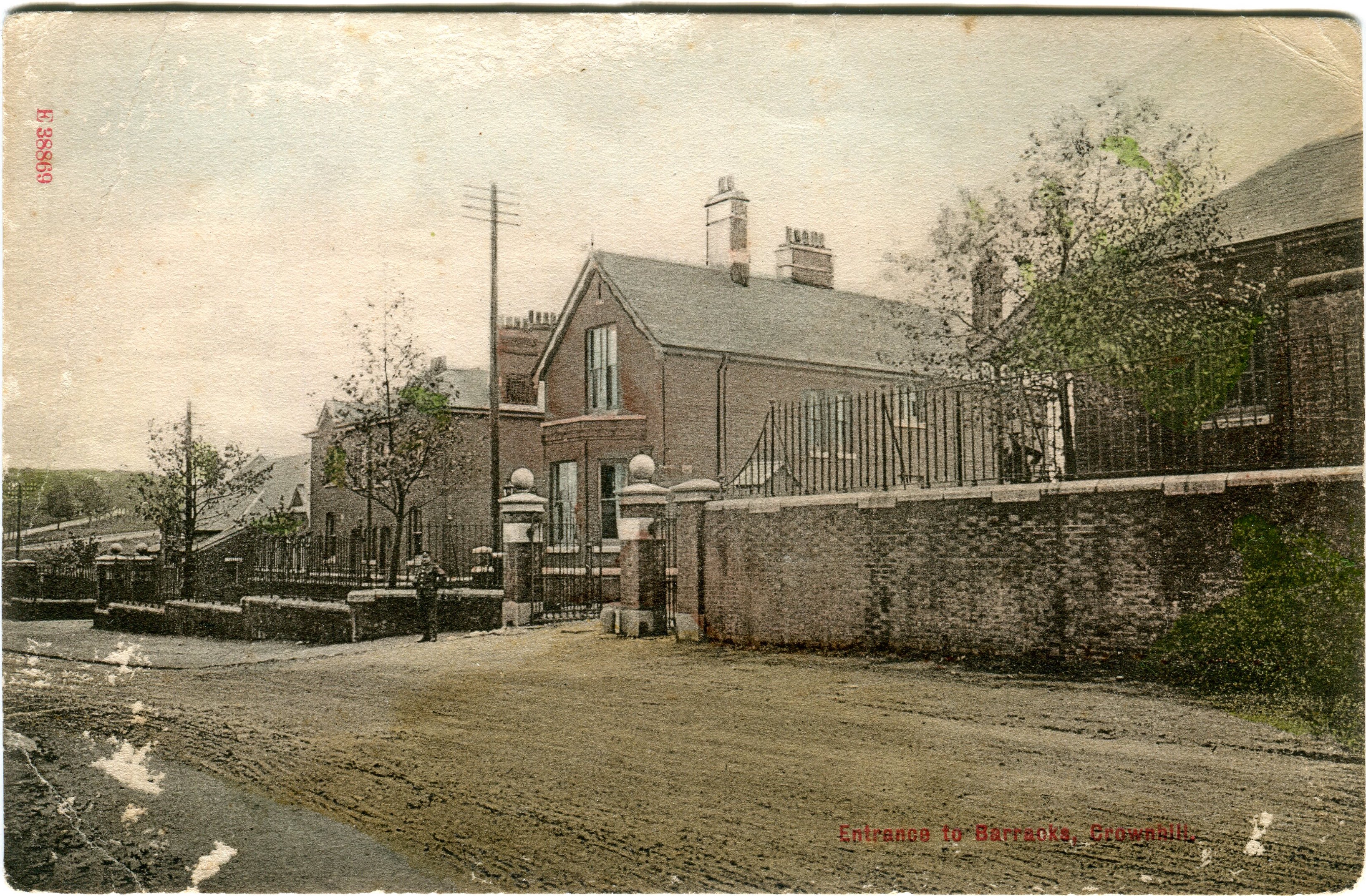 Entrance to barracks, Crownhill (Old postcard)